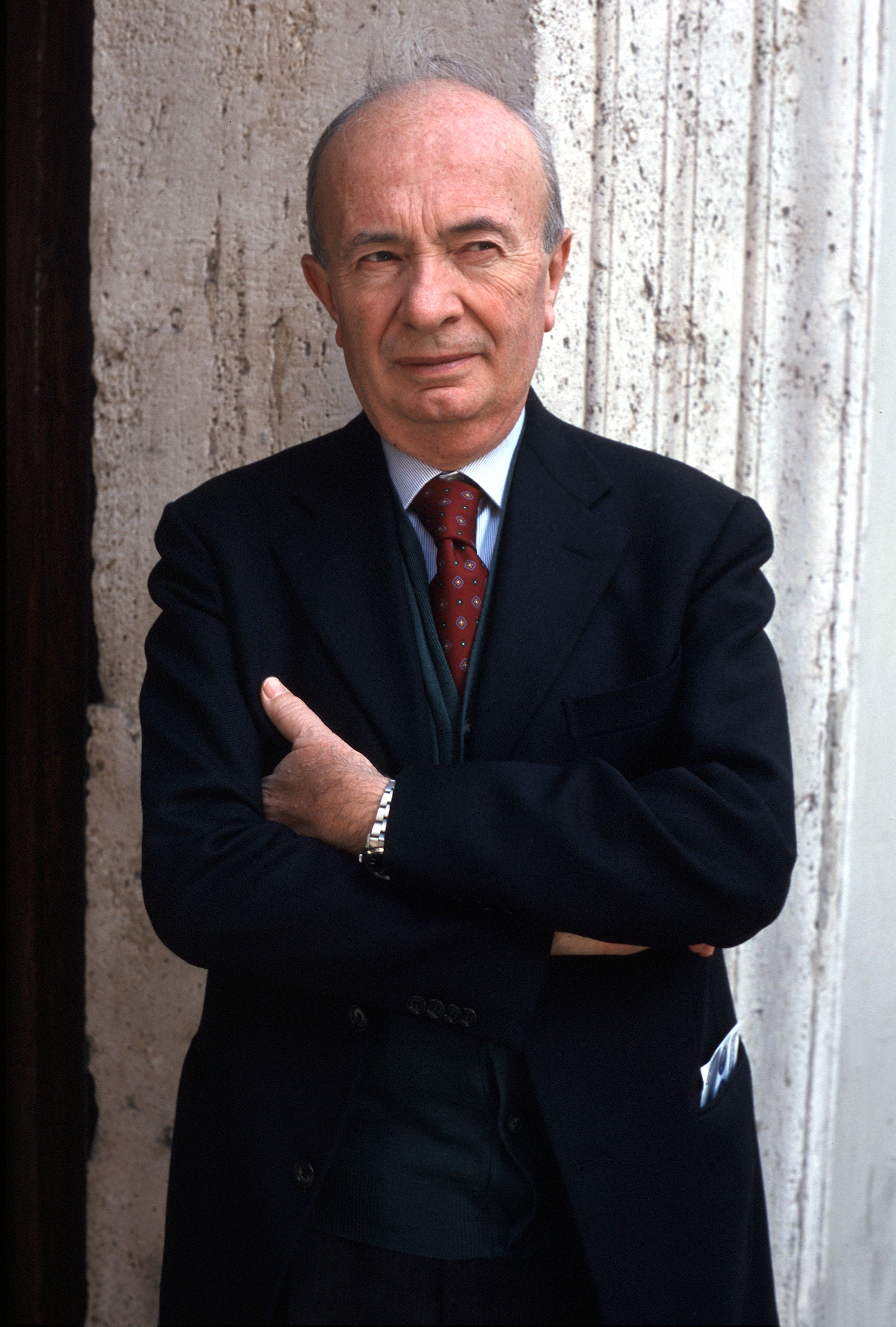 Giorgio Rumi